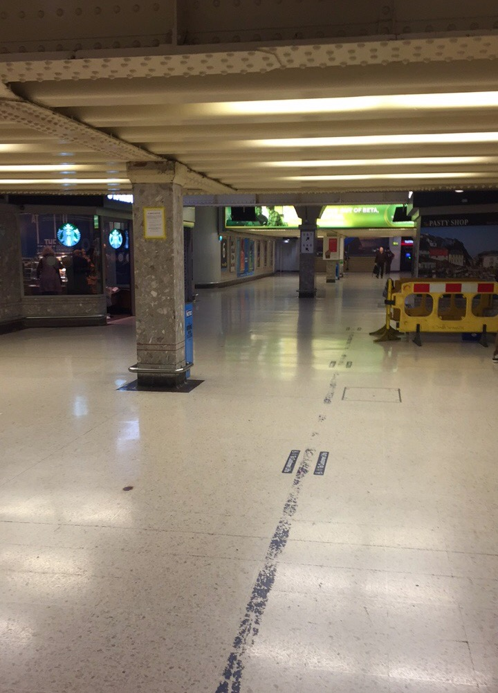 The underpass at Bristol Temple Meads railway station.